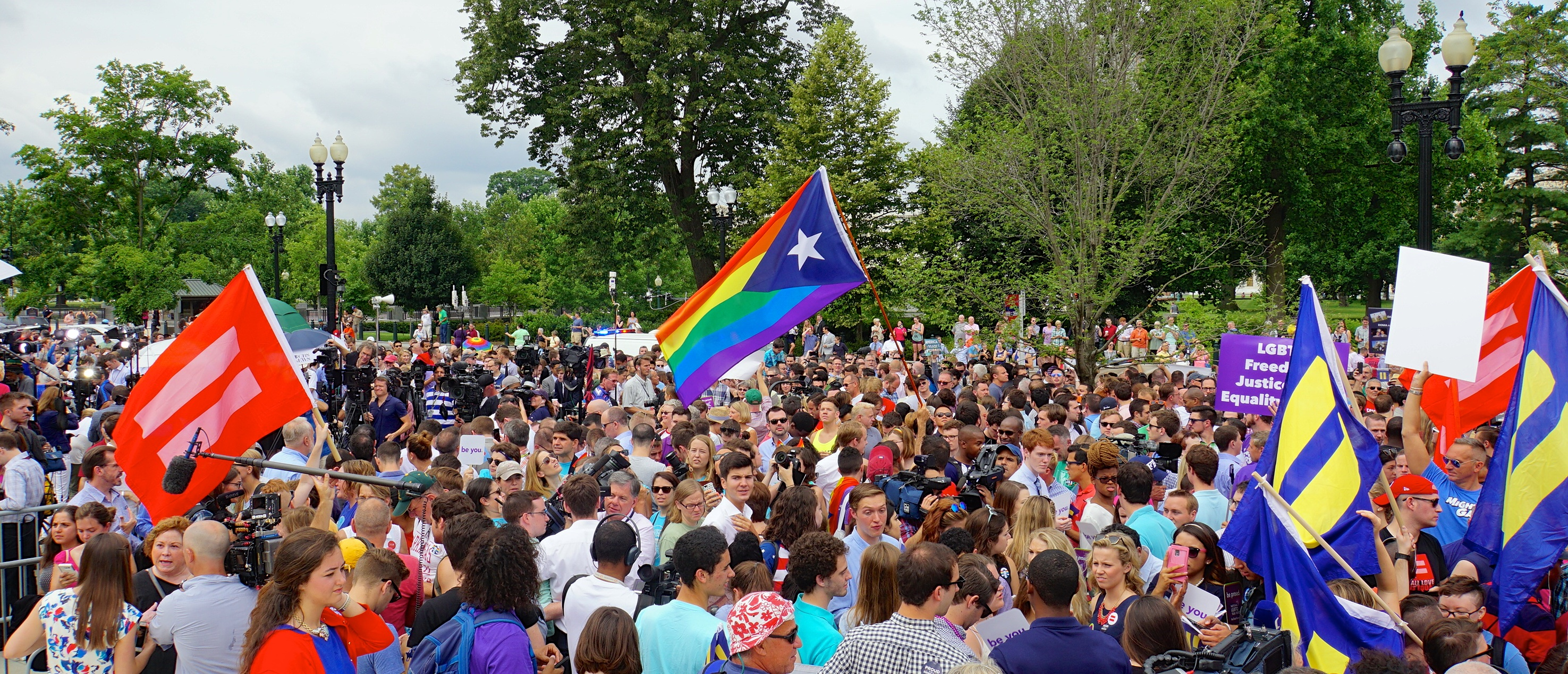 Supreme Court of the United States ends marriage discrimination - Obergefell vs Hodges